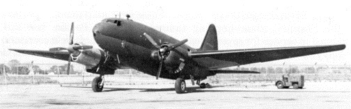 Curtiss XC-113, the XC-46C converted as a testbed for the T31 turboprop engine, mounted in place of engine No. 2.